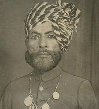 Ustad Mushtaq Hussain Khan was an Hindustani Classical Vocalist and he belonged to the Rampur-Sahaswan Gharana. He came under the tutelage of Ustad Inayat Hussain Khan and spent eighteen years of his life with his master. He was the first recipient of Padma Bhushan and Sangeet Natak Akademi Award in the category of vocal.